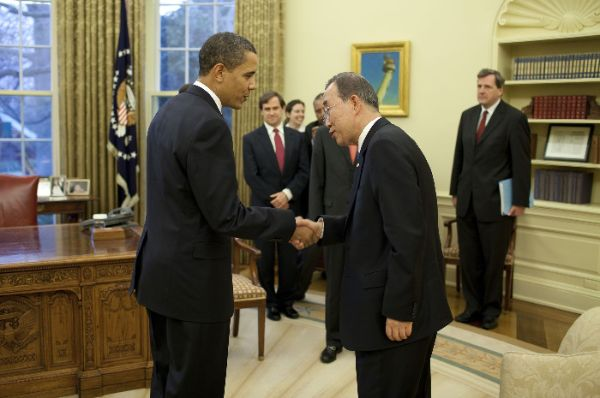 President Barack Obama in a meeting with United Nations Secretary-General Ban Ki-moon in the Oval Office on March 10, 2009.